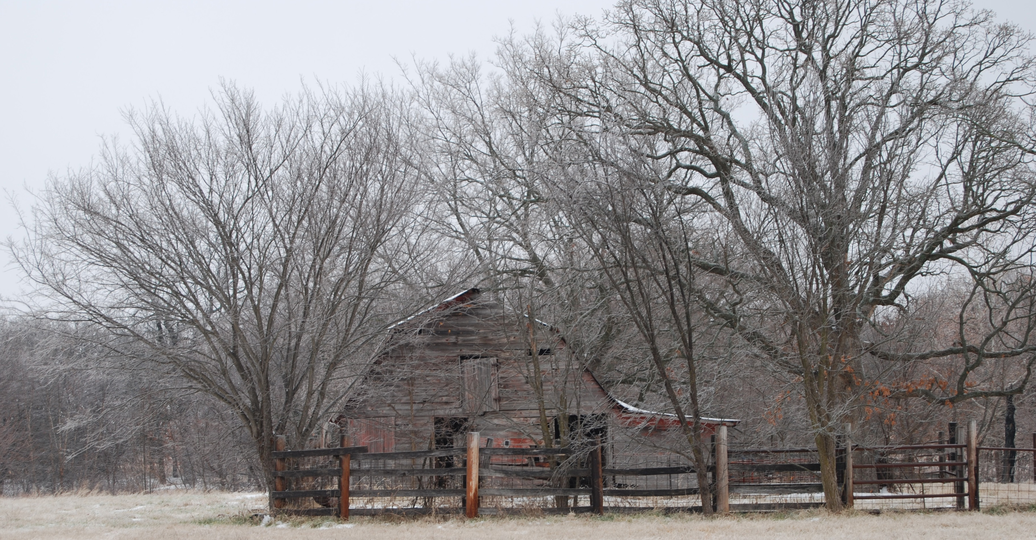 This old barn is across the road from me...I thought it might deserve a photo